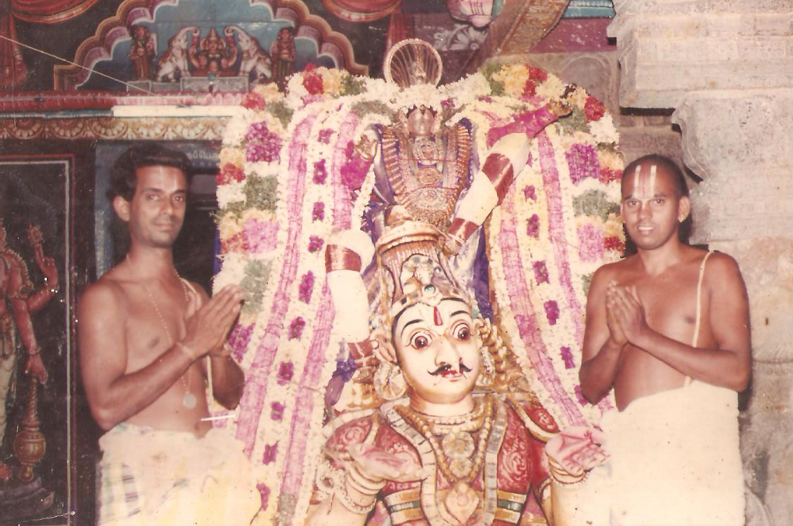 this photo show a divine of tje lord